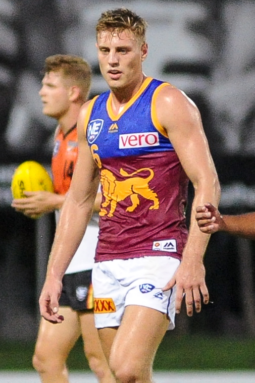 Jarrad Jansen playing for Brisbane Lions reserves in April 2017